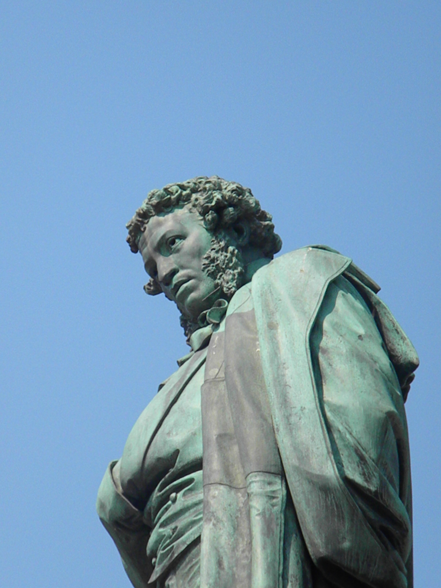 Statue of Pushkin (Moscow, Pushkinskaya Square)